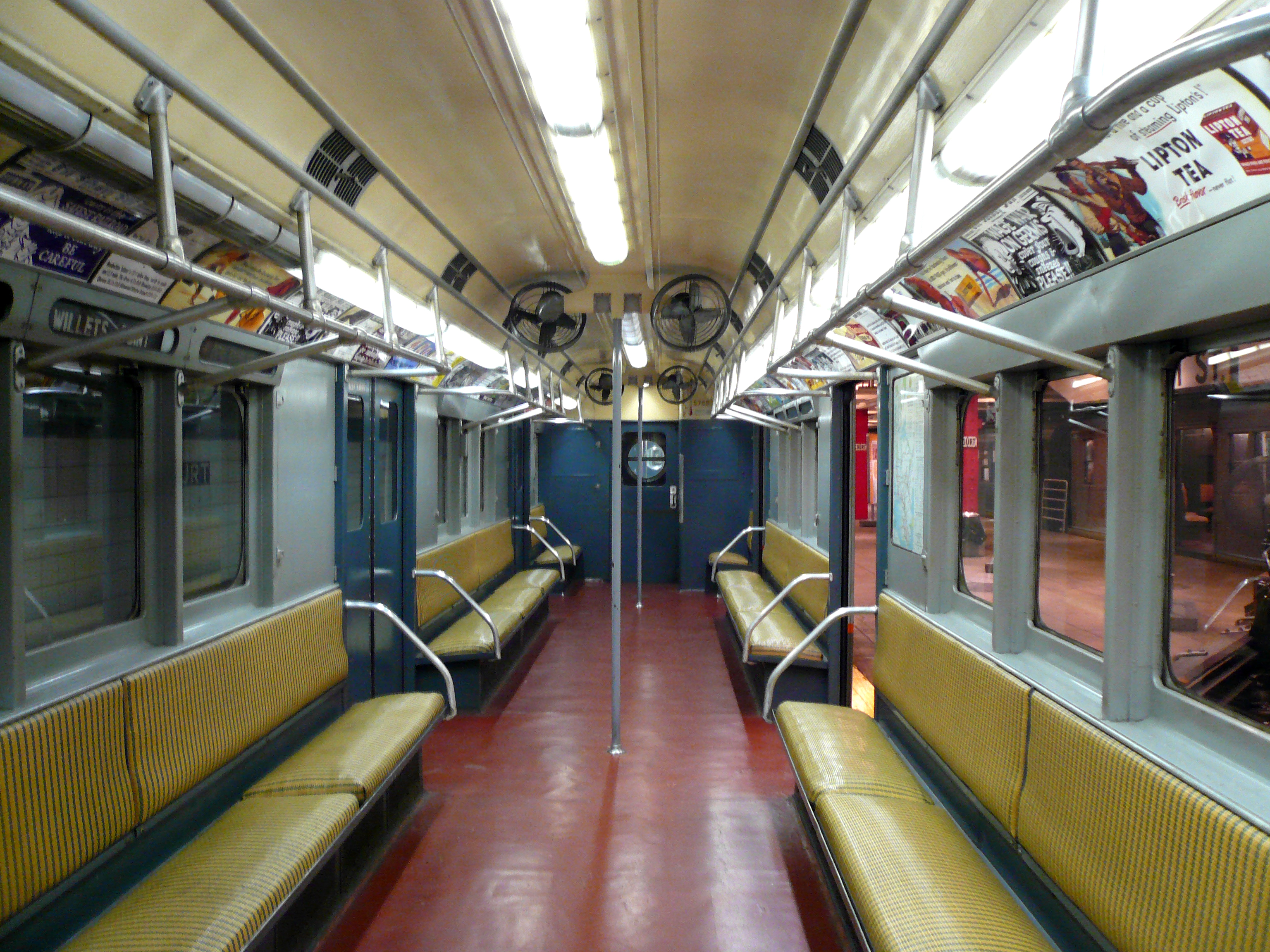 Interior of R-12 IRT subway car at the New York Transit Museum.